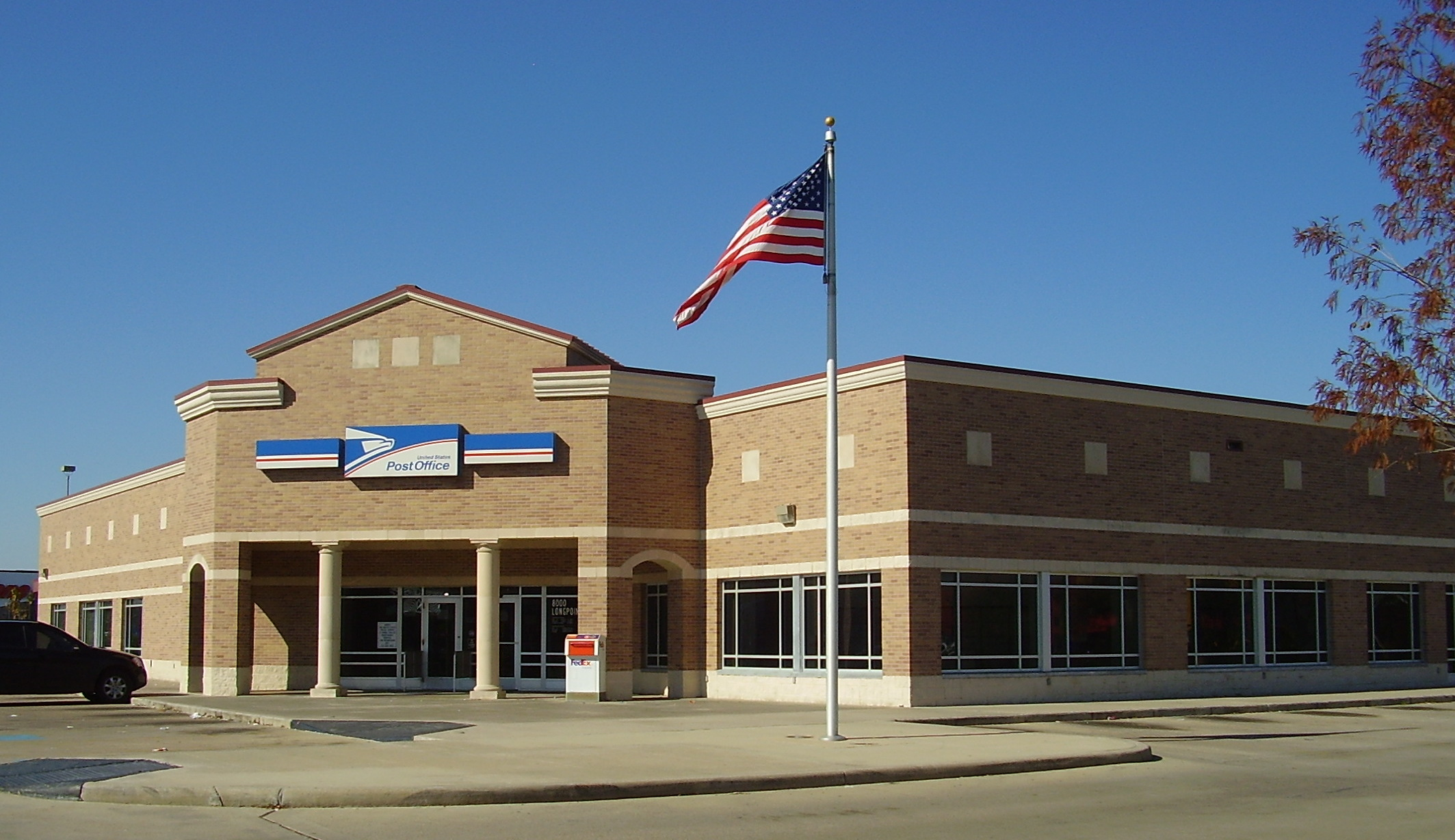 Long Point Station - Spring Branch